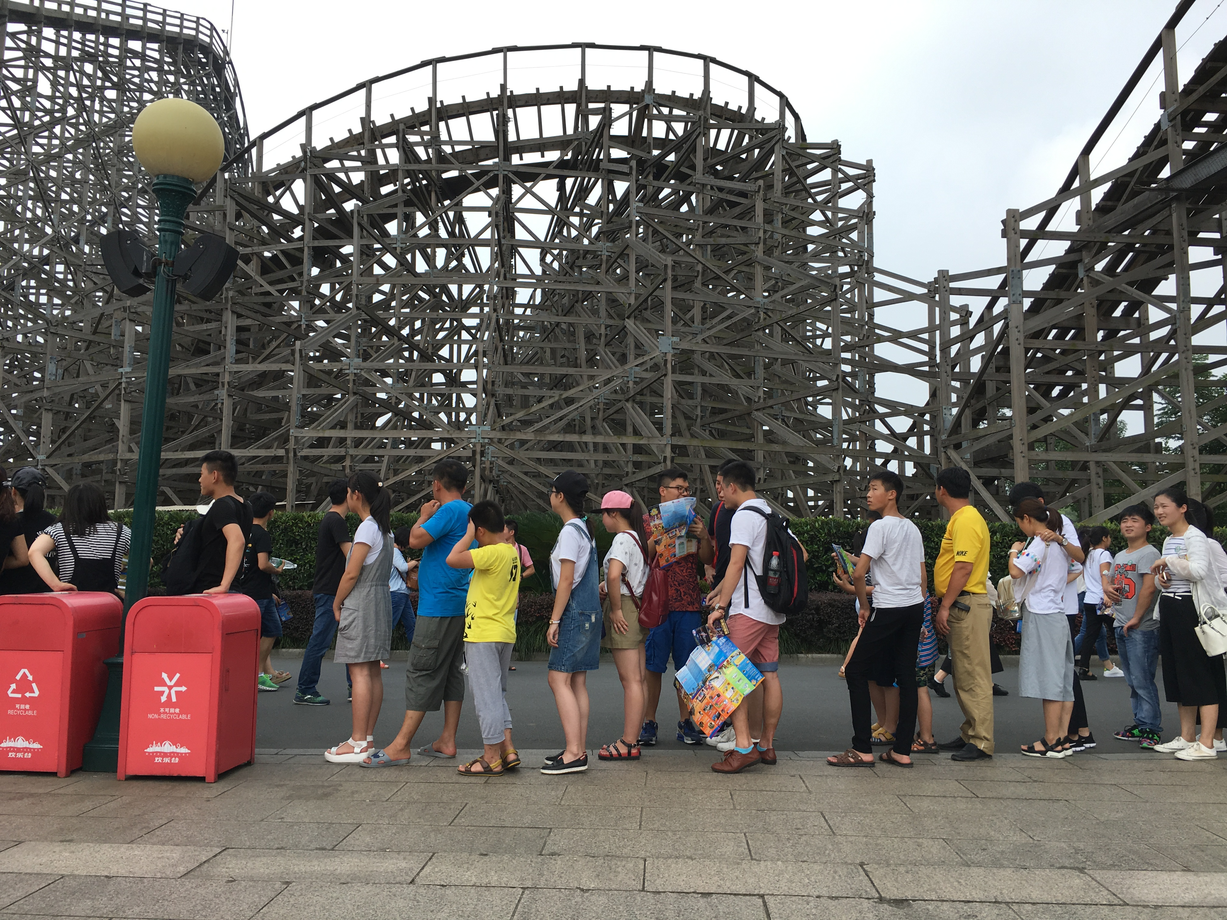 Wooden rollercoaster and 2 hours queue to it at Happy Valley Shanghai